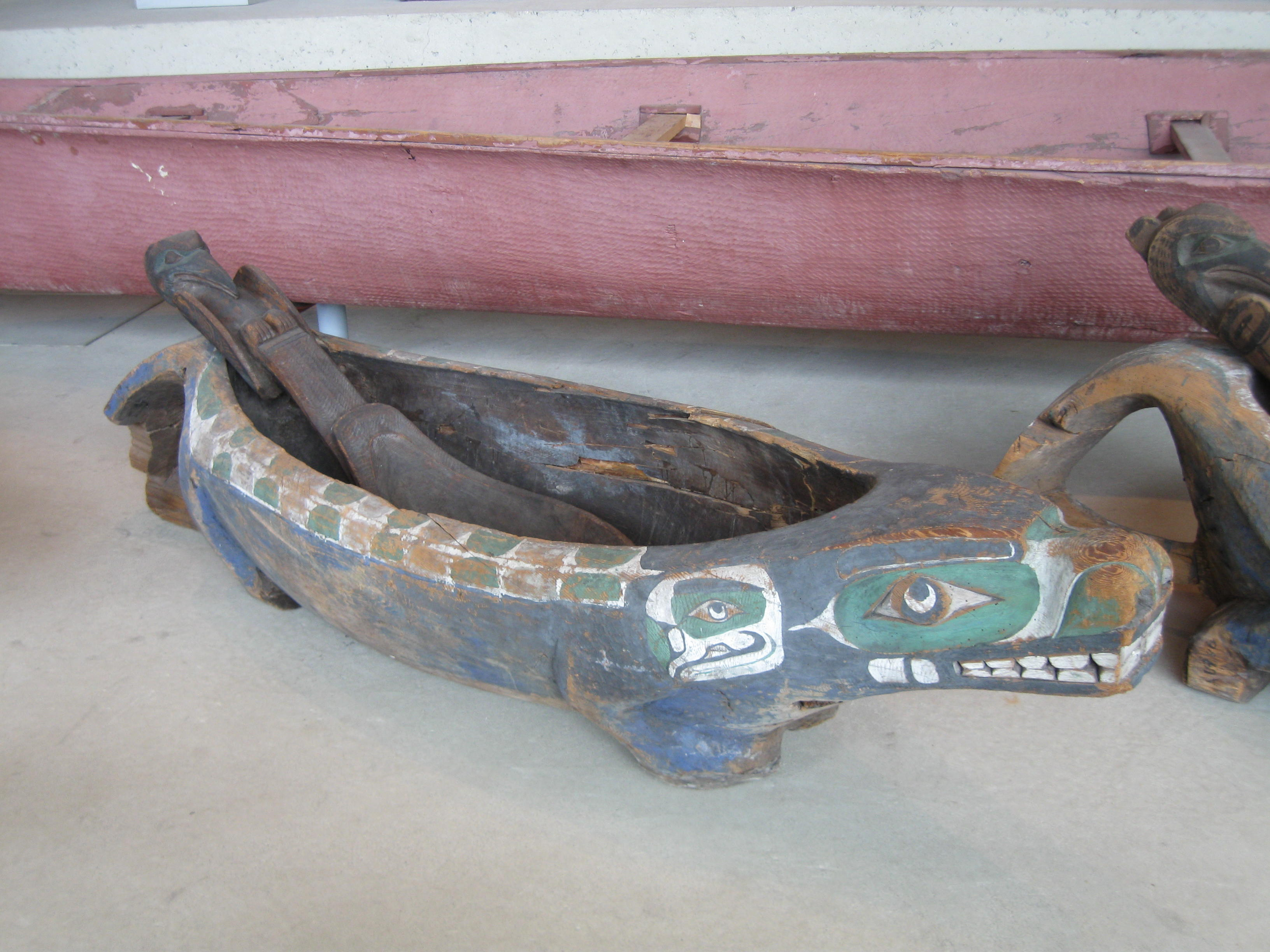 A cedar Lukwalil (house dish) beaver made by the Gwa'sala. It dates to 1872 and was purchased by UBC's Museum of Anthropology from Takus (Smith Inlet) in 1953. It is now located in this museum's collection in Vancouver, Canada. It was reportedly central to the serving of food at native Indian ceremonial gatherings.